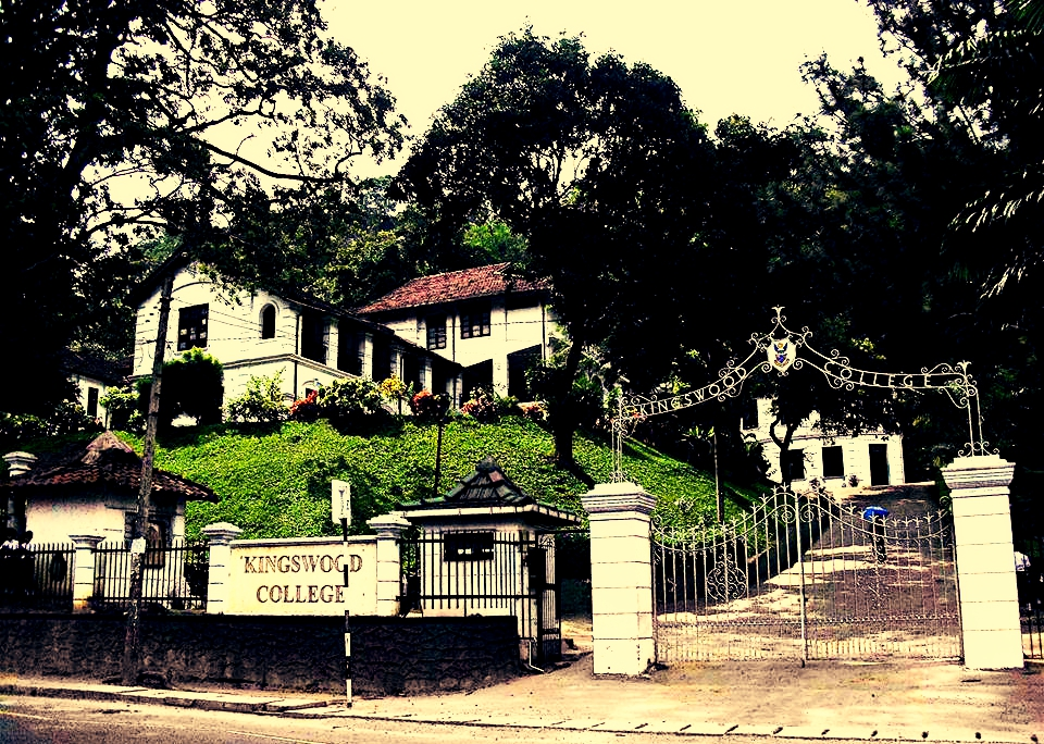 Front view of Kingswood College